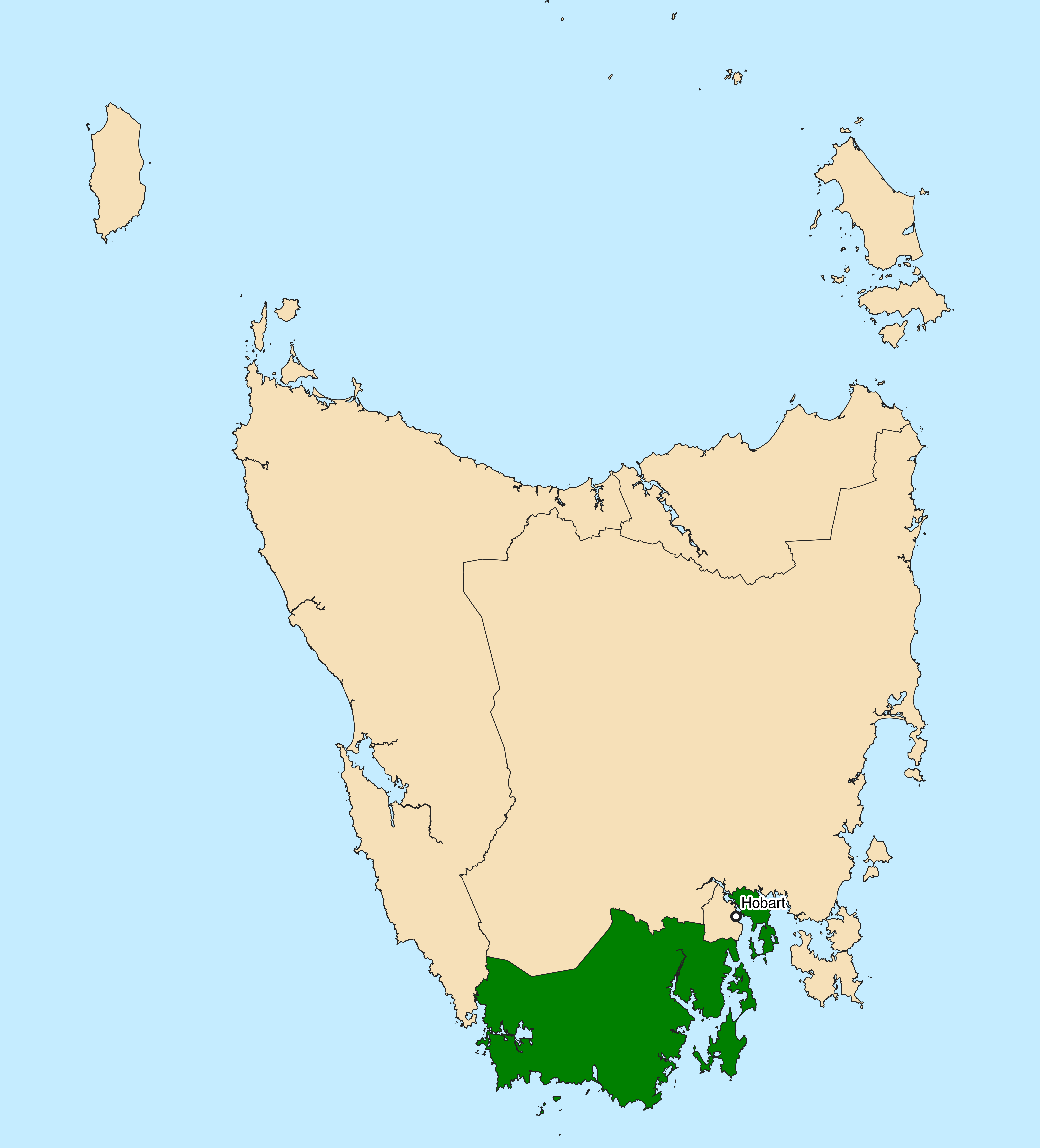 Location of the Australian federal electoral division of Franklin (dark green) in Tasmania as of the 2019 Australian federal election. Incorporates or developed using Administrative Boundaries ©PSMA Australia Limited licensed by the Commonwealth of Australia under Creative Commons Attribution 4.0 International licence (CC BY 4.0).